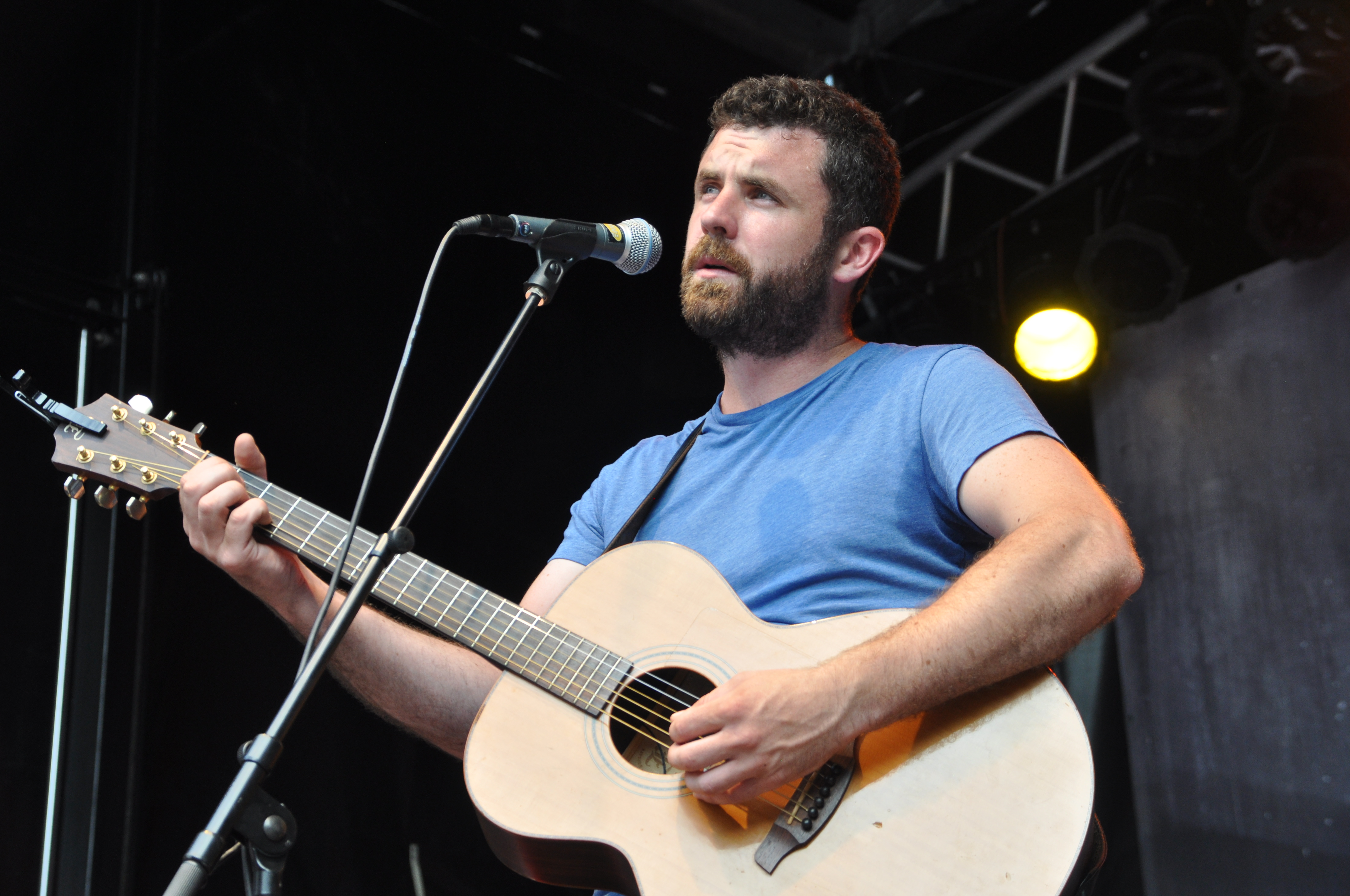 Mick Flannery (Ireland / Éire), appearance at the 38th music festival "Bardentreffen" 2013 in Nuremberg, Germany, St. Sebald Square stage